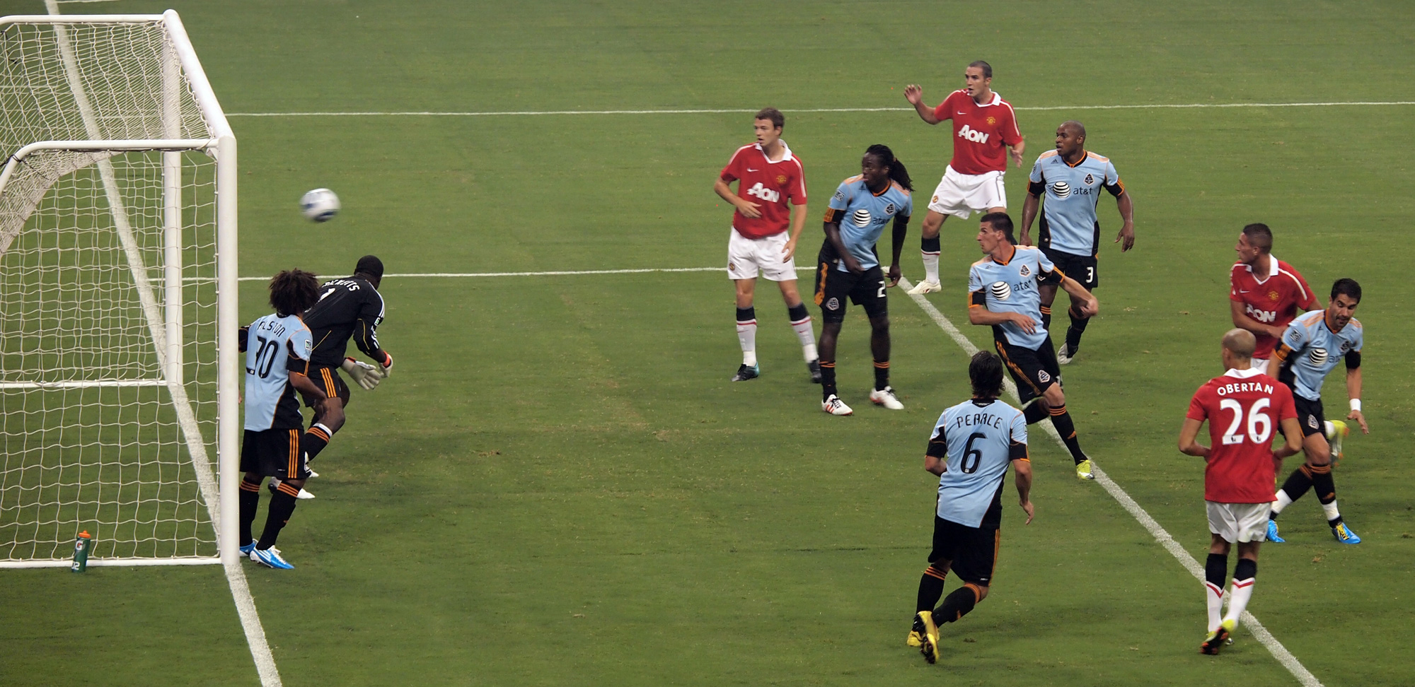 Federico Macheda scores against the MLS All-Stars.